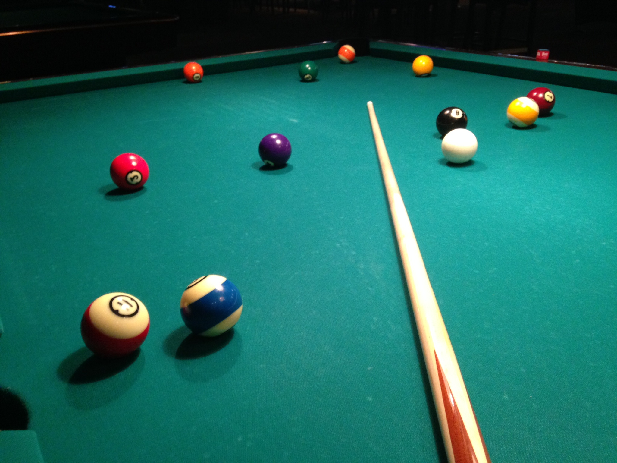 after the break